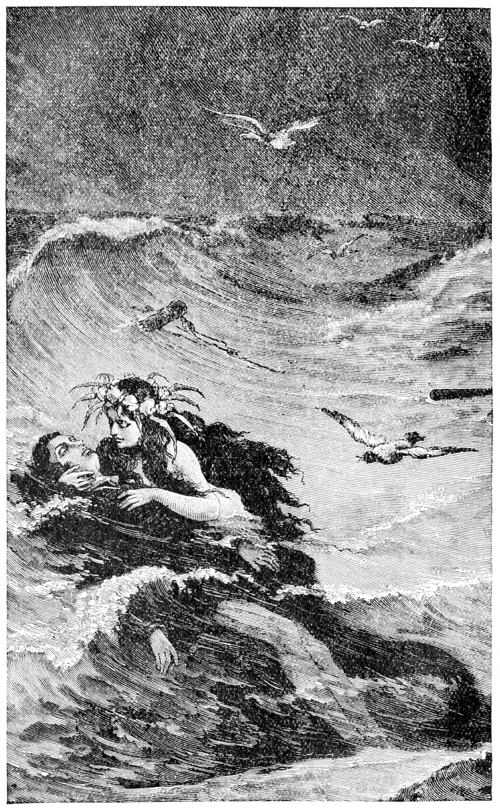 Illustration from an English translation of Andersen's fairy tales